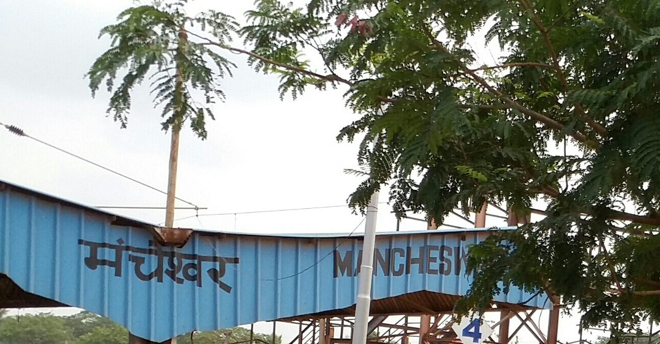 Mancheswar railway station platform no.4